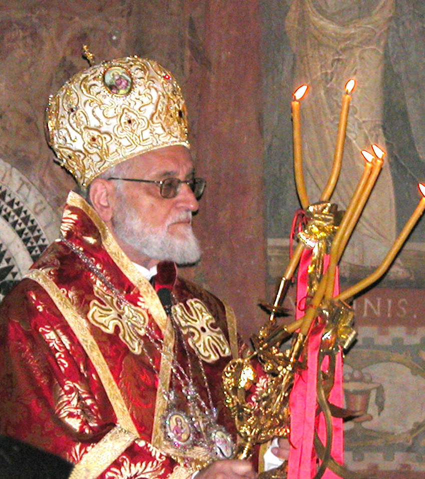 Melkite Patriarch Gregorios III during Divine Liturgy of Pentecost, 2008